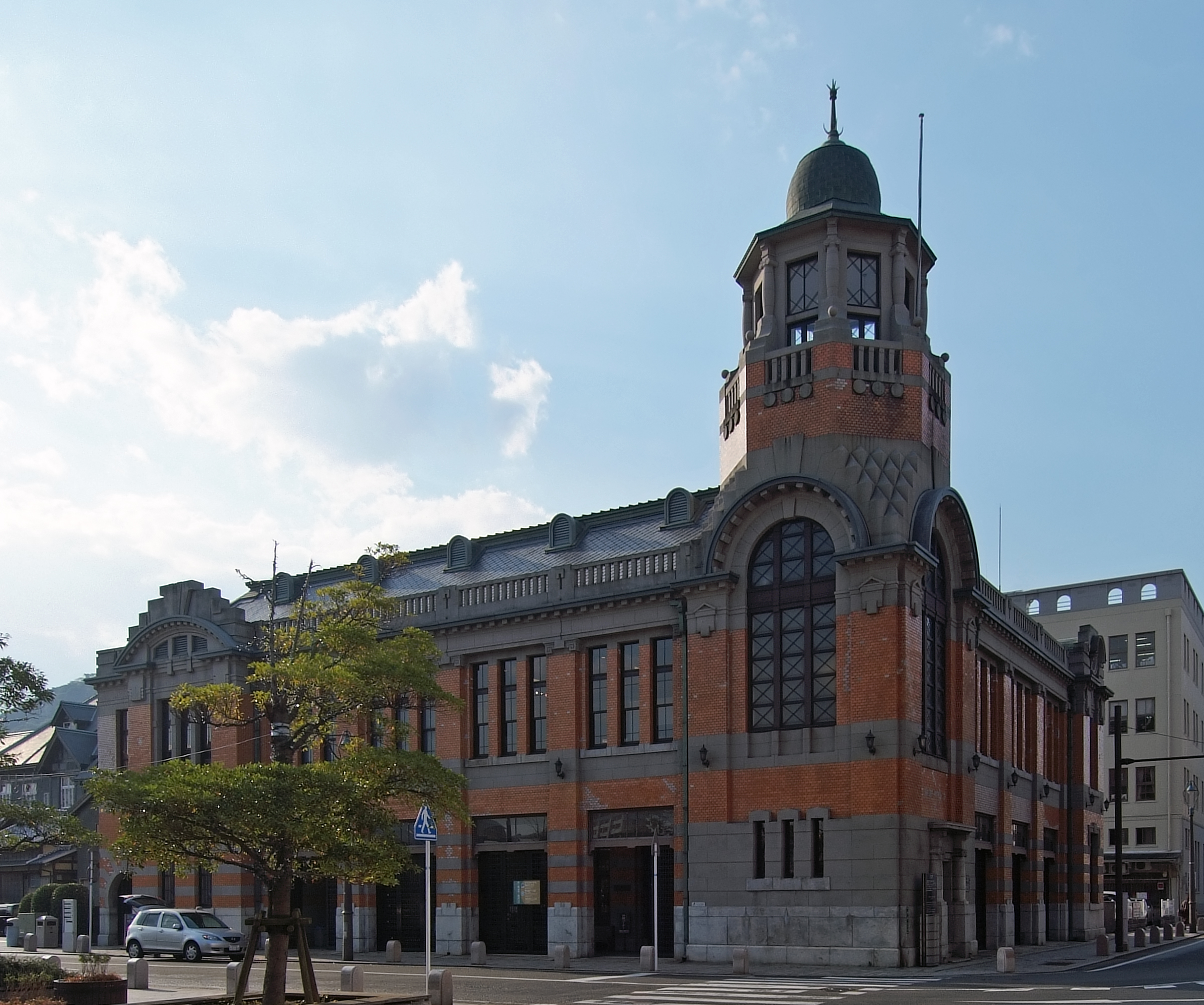 Former Osaka Shosen Moji Branch Office, at Moji-ku Kitakyushu Japan, built in 1917.